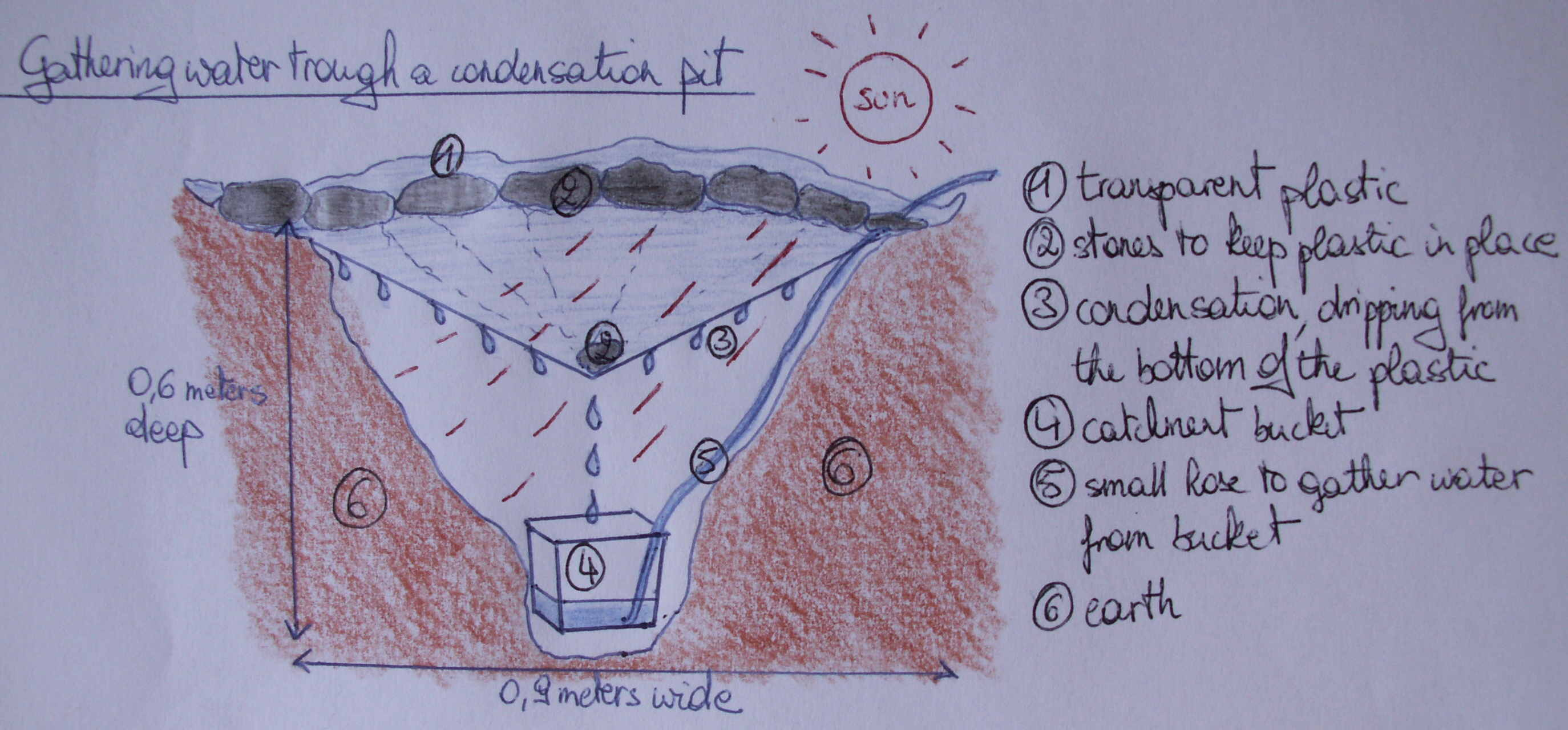 A hand drawn picture of a condensation pit. The picture has been drawn after a model from Peter Darman's The Survival Handbook. This condensation pit may be used to gather water in the field.